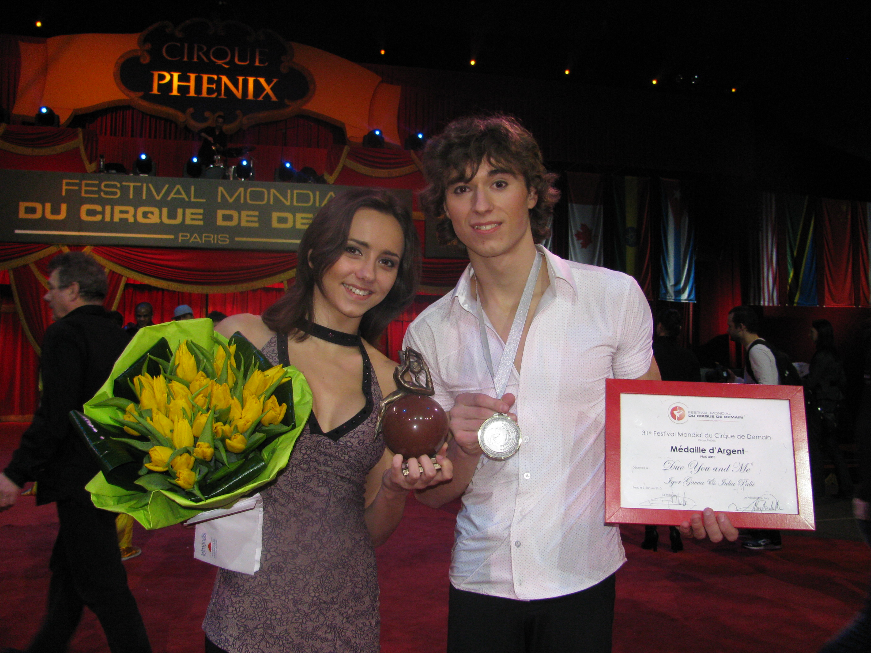 In 2010, Igor Gavva and Iuliia Palii won a silver medal and a special prize at the International Circus Festival "Cirque de Demain".